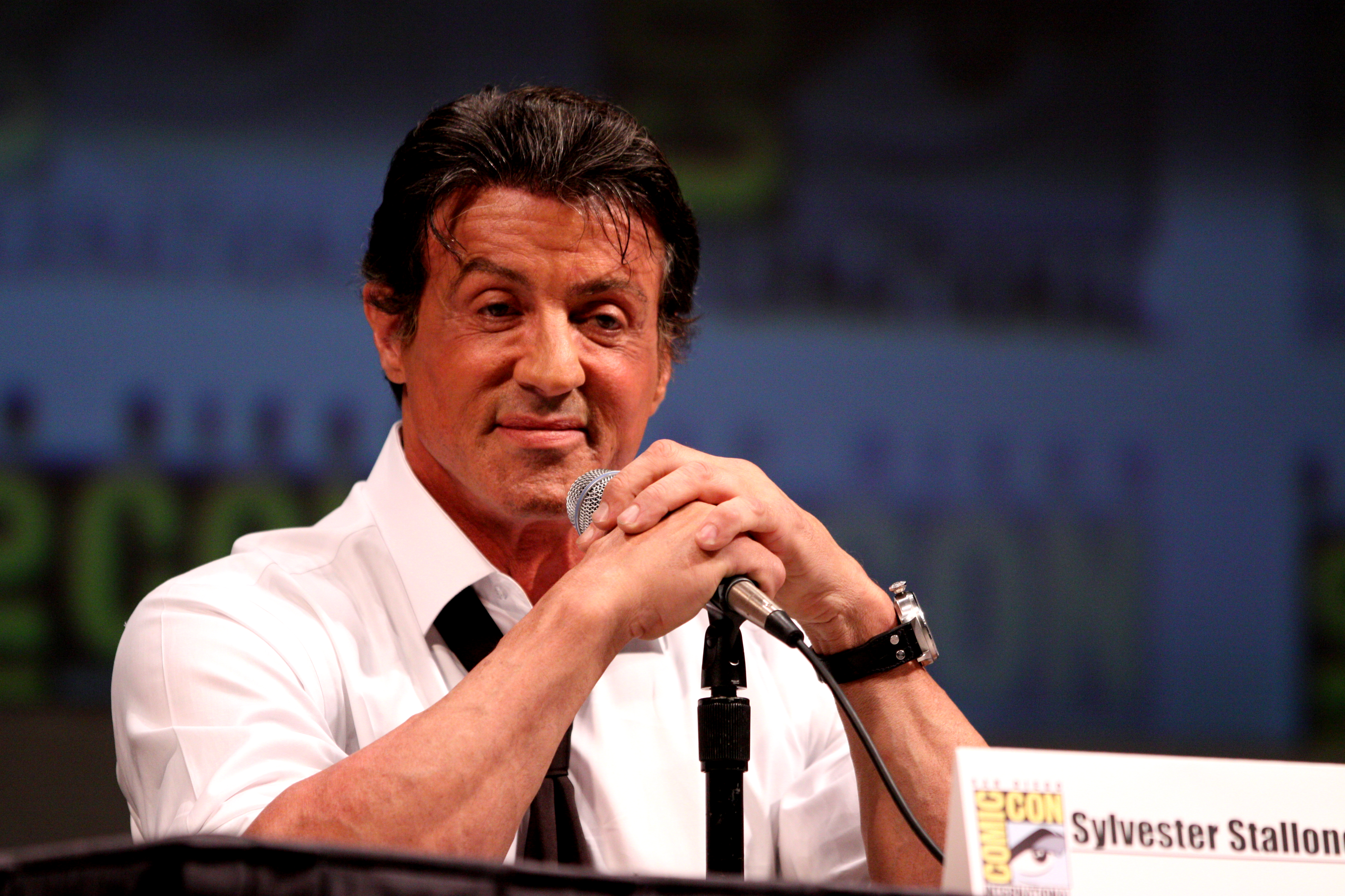 Actor Sylvester Stallone on the Expendables panel at the 2010 San Diego Comic Con in San Diego, California.